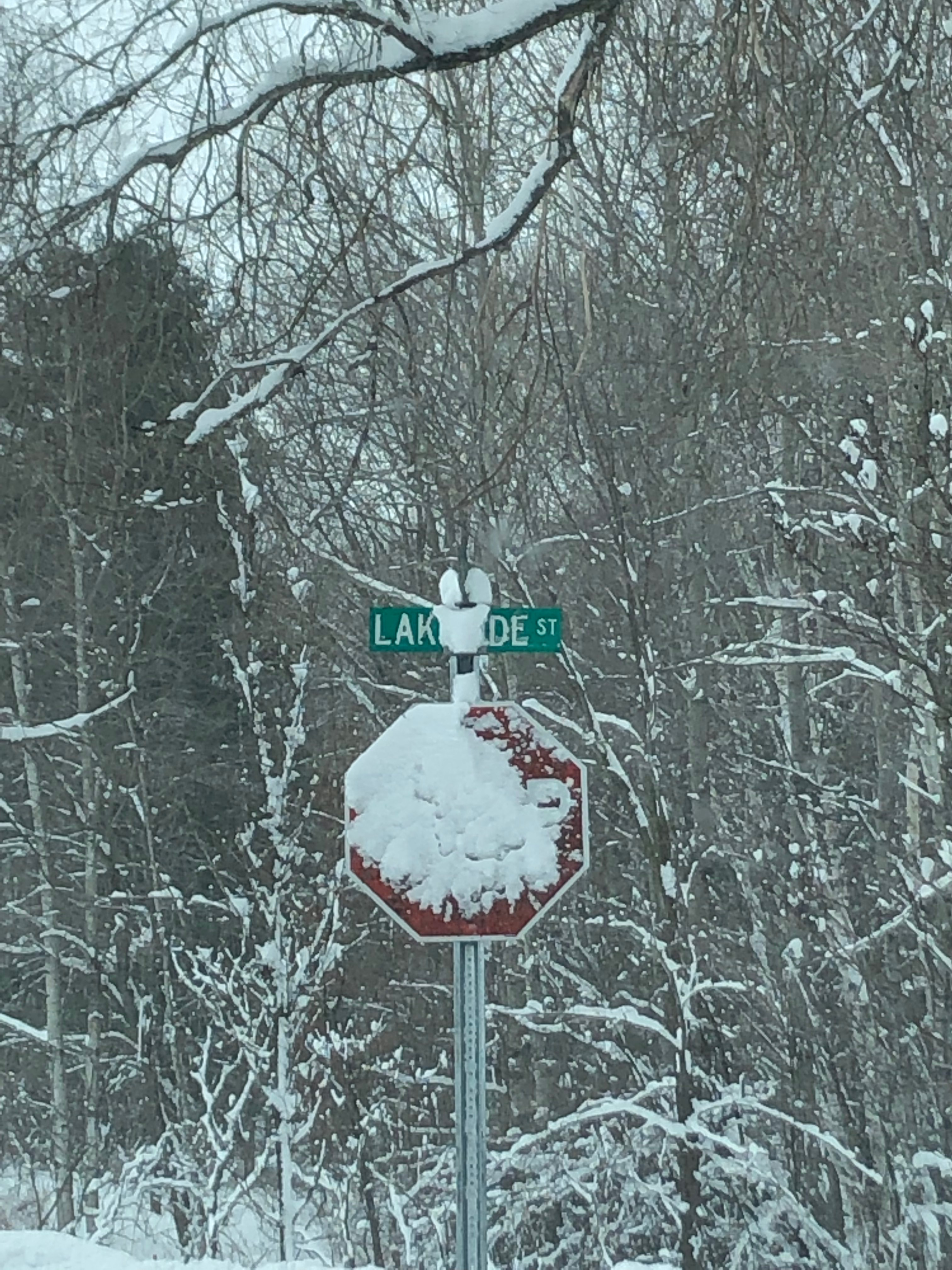 An old, snow-covered stop sign in Grand Traverse County, Michigan.